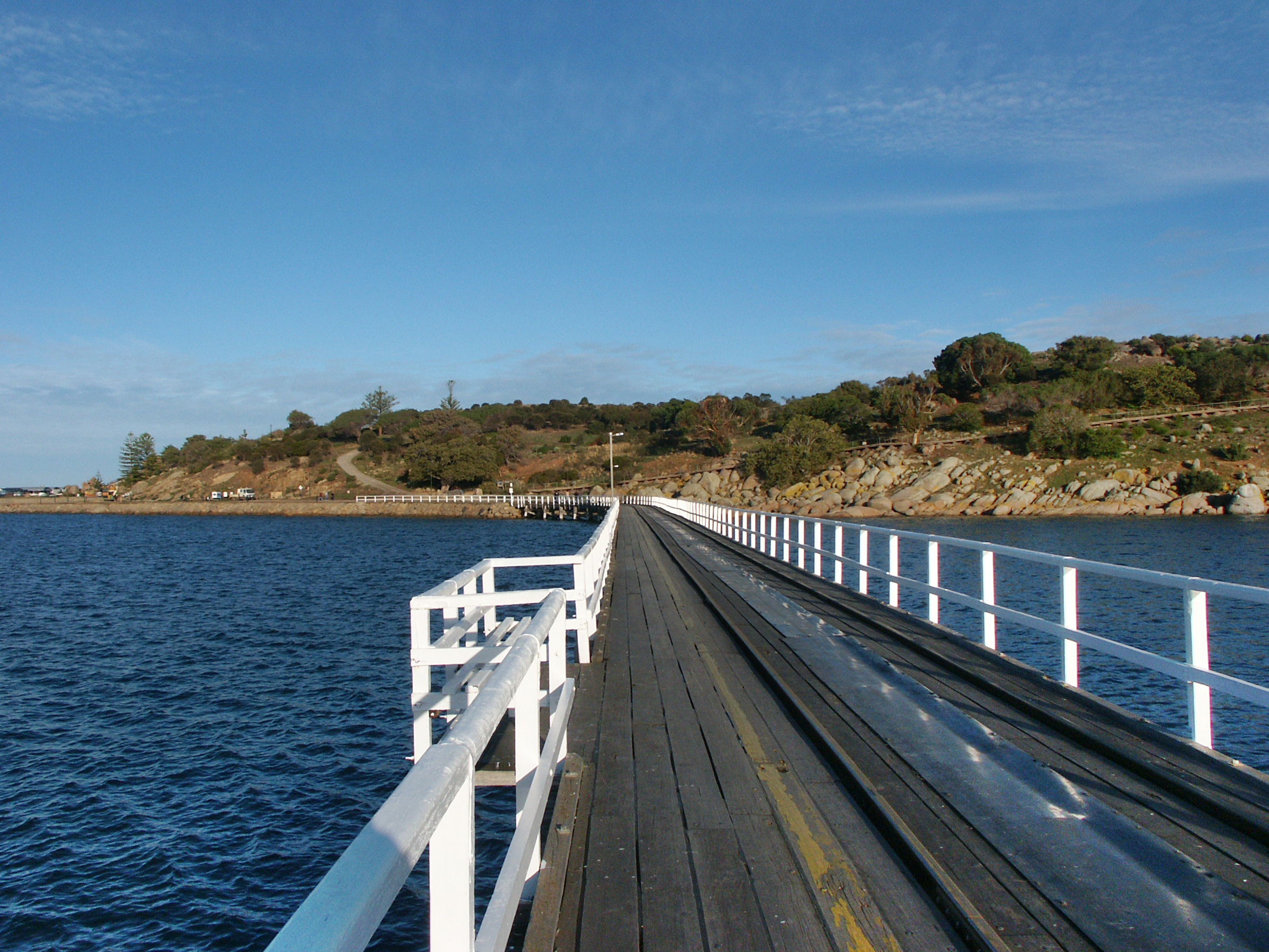 The Causeway, actually a timber bridge or pier, leading to Granite Island from Victor Harbor, South Australia. The rail tracks on the causeway belong to the Victor Harbor Horse Drawn Tram. For more information, see the Wikipedia articles Granite Island (Australia) and Victor Harbor Horse Drawn Tram.